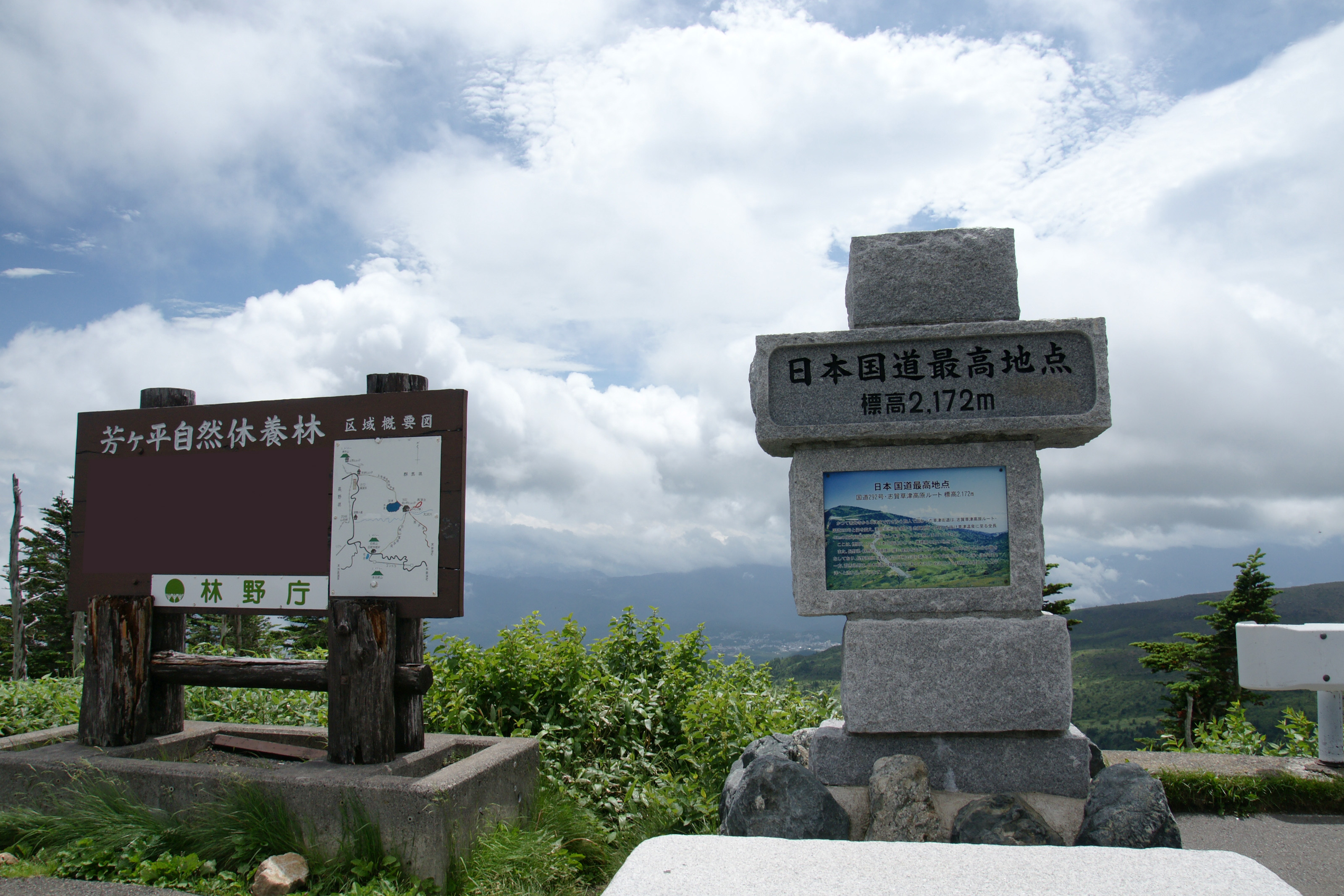 at Shibu-toge, Kuni, Gunma prefecture, Japan